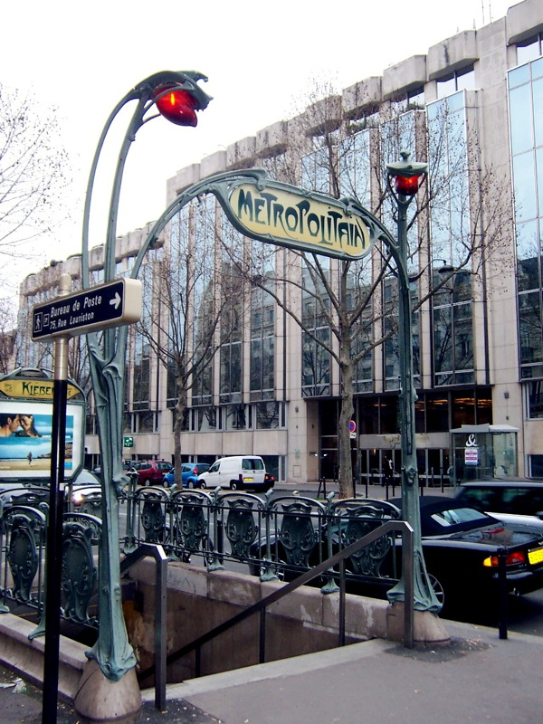 1970s Dalitastic